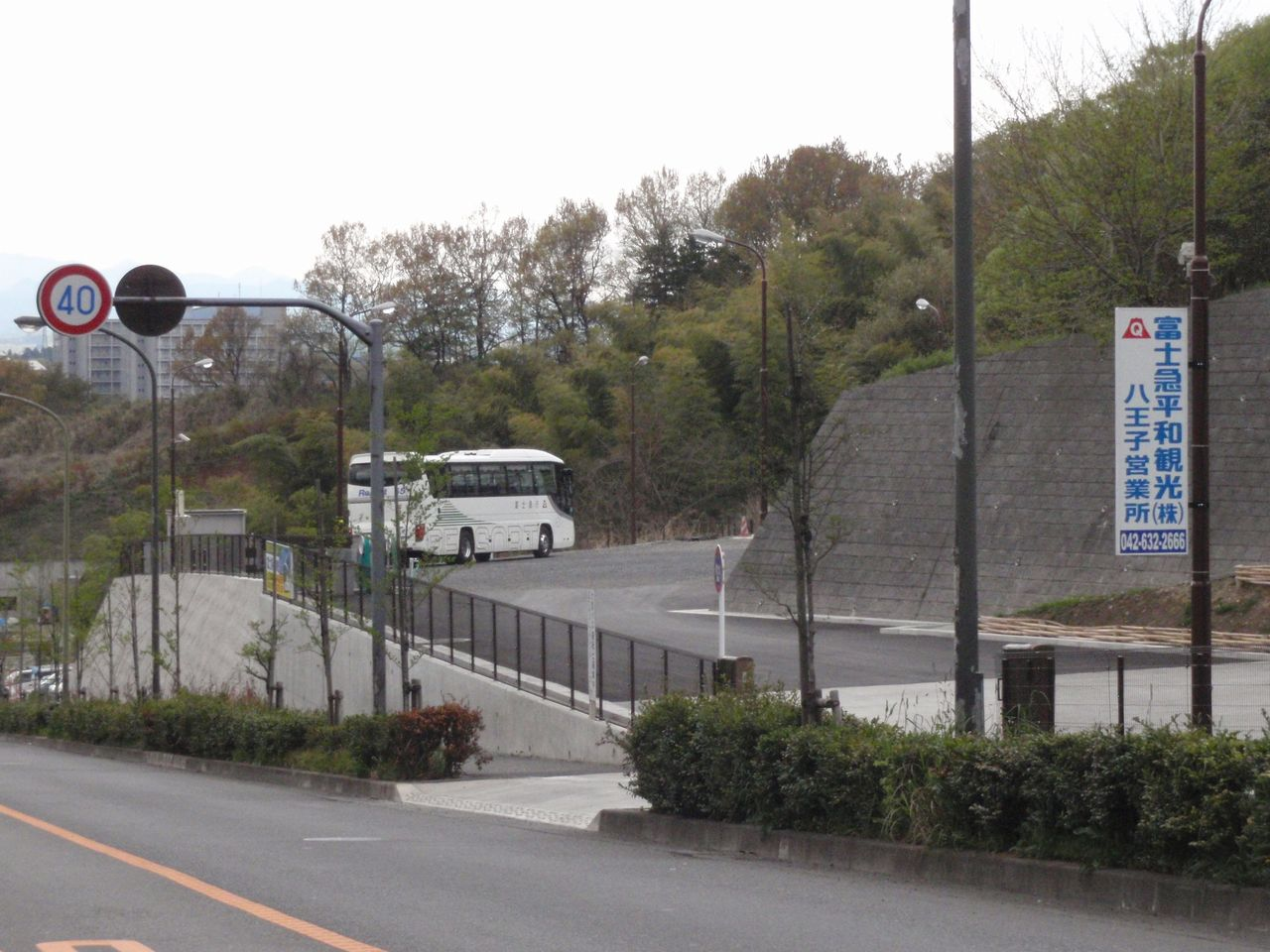 Fujikyu Heiwa Kanko Hachioji branch